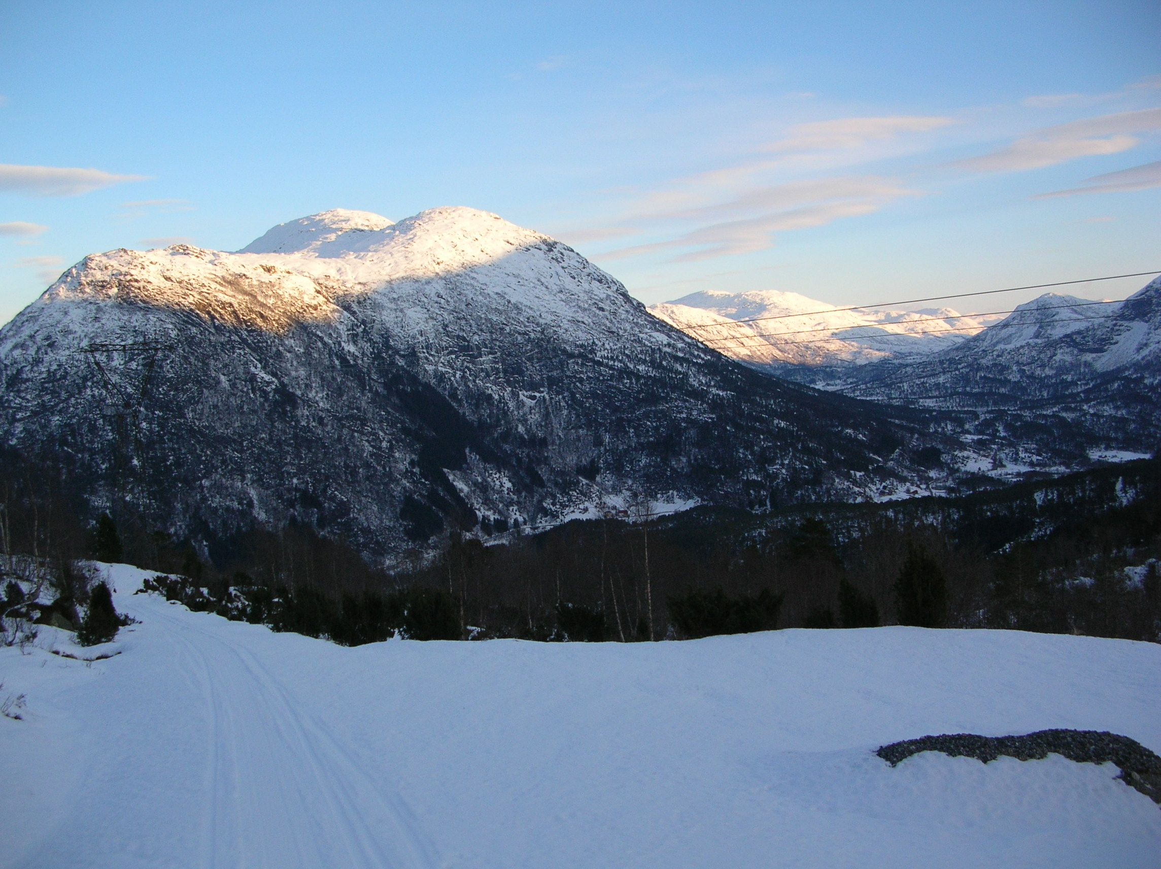 Parts of Eldalsdalen valley in Gaular municipality, Sogn og Fjordane county, Norway. The picture shows the eastern parts of the valley, towards Gaularfjellet